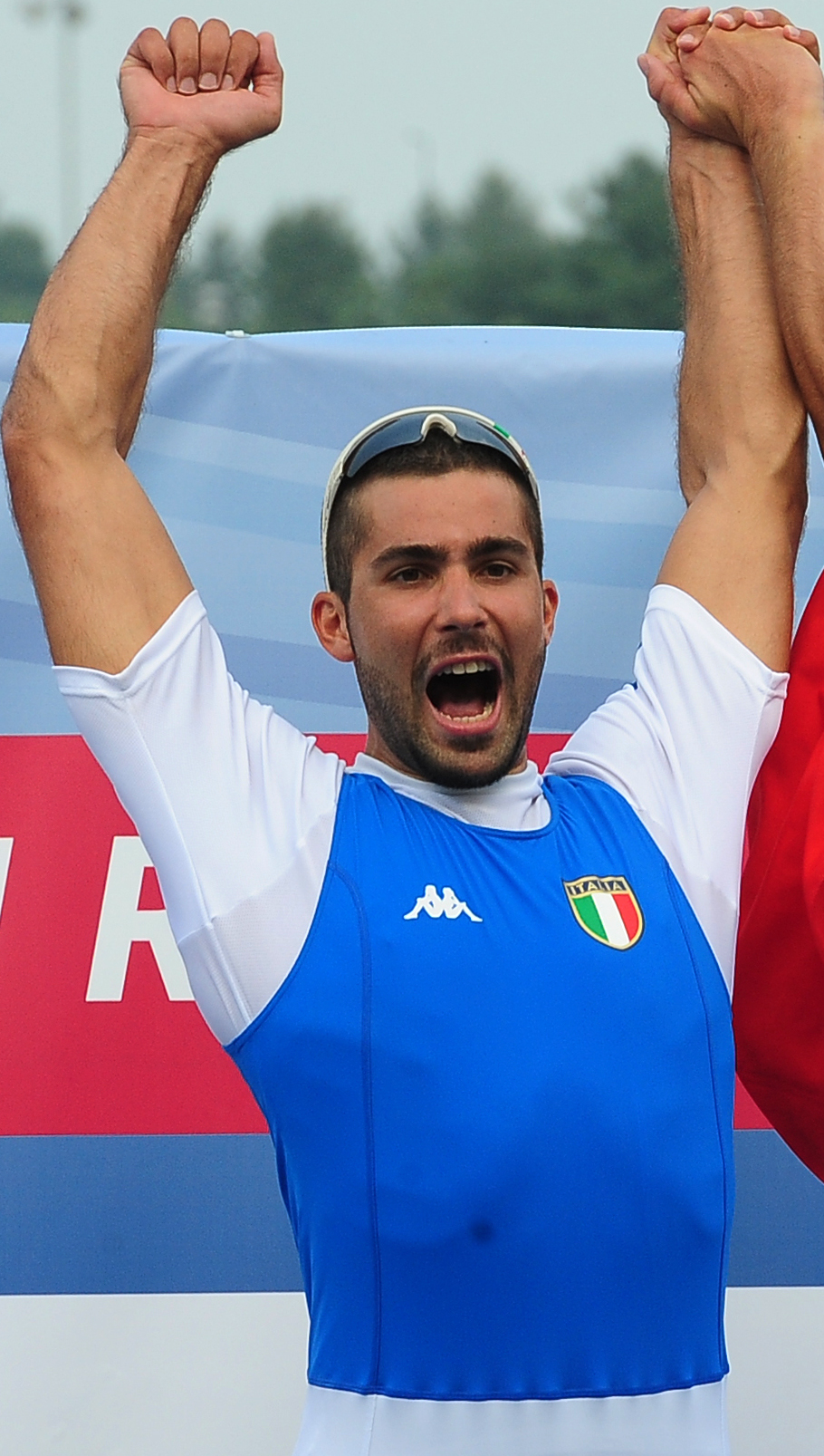 2013 Chungju World Rowing Championships 2013.08.24. – 09.01. -Related Articles- -English- World Rowing Championships kicks off in Chungju -中文- 2013忠州世界赛艇锦标赛开幕 - tiếng Việt- Giải Vô địch Đua thuyền Thế giới khai mạc tại Chungju - Deutsch- Ruder-Weltmeisterschaften in Chungju haben begonnen - 日本語 - 2013忠州世界ボート選手権大会、ローイング（Rowing)競技始まる - Russian - В Чхунжду начинается Чемпионат мира по академической гребле -Francais- Les championnats du monde d'aviron à Chungju sont ouverts ! -Arabic- بطولة العالم للتجديف تنطلق في تشونج جو Ministry of Culture, Sports and Tourism 2013 충주세계조정선수권대회 문화체육관광부